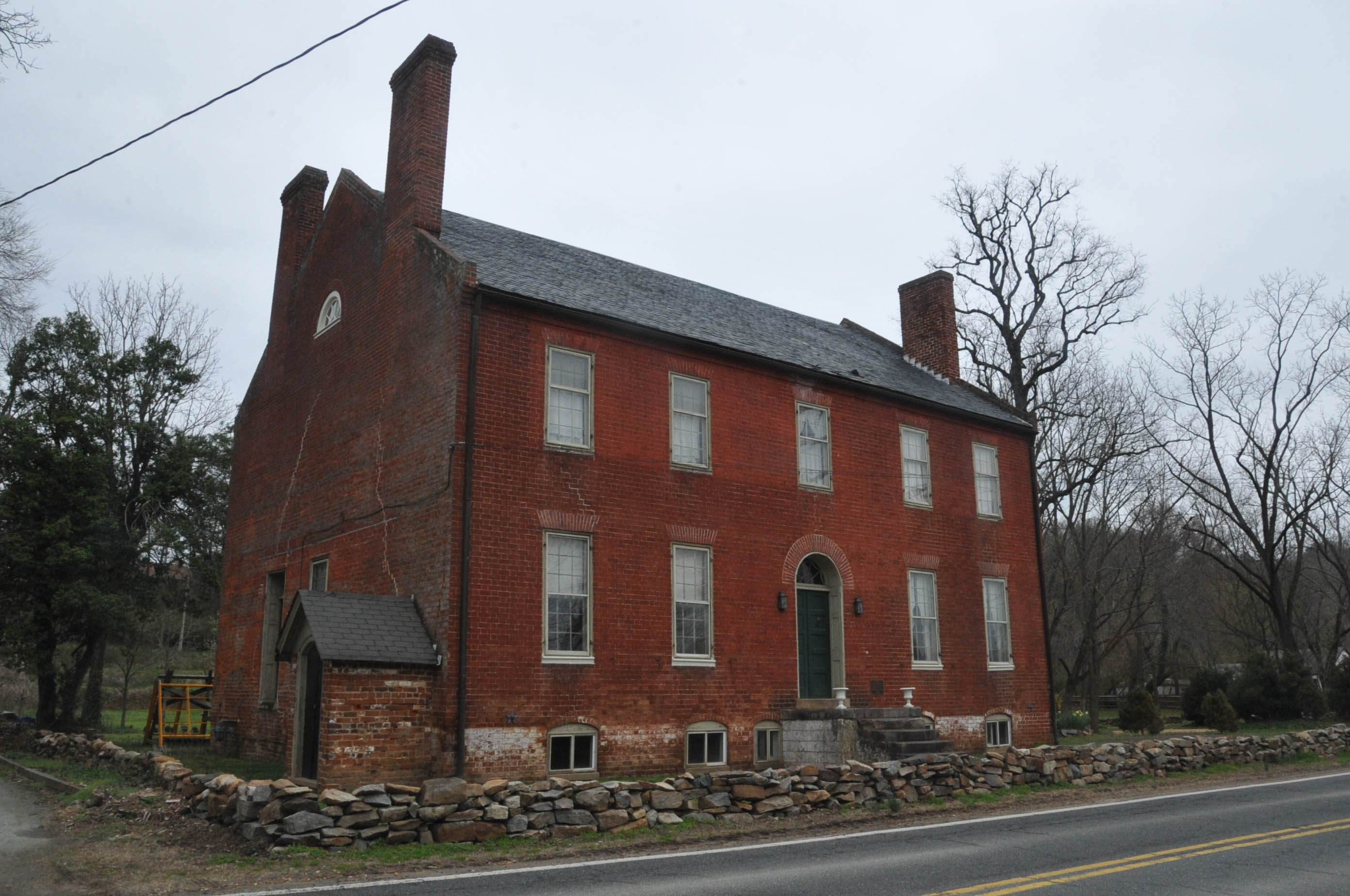 HOUSE CIRCA 1807; HOME OF RENOWED ABOLITIONIST FROM 1838 TO 1862. HE NEVER RETURNED AFTER THE CIVIL WAR AND DIED IN EUROPE IN 1907